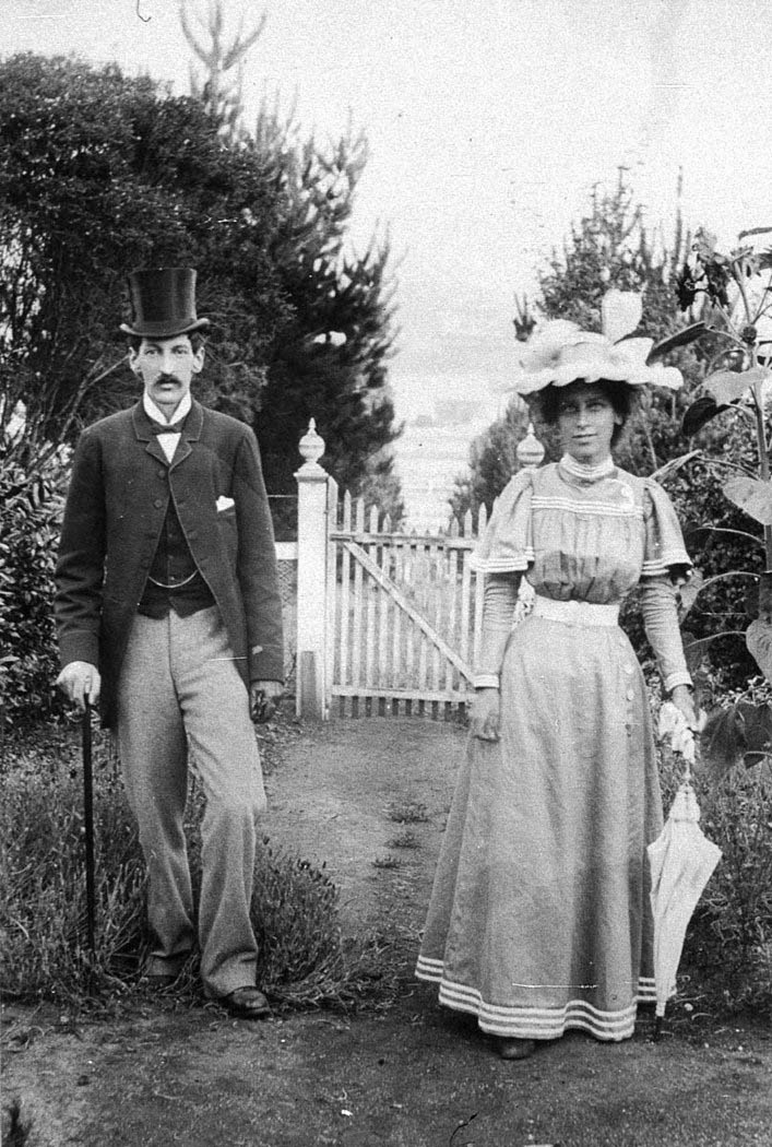 Sophie Elizabeth Steffanoni arriving at a tea party at the Jones' house, Dapto, New South Wales, 1898, by A.C. Cowle, State Library of New South Wales, BCP 05218